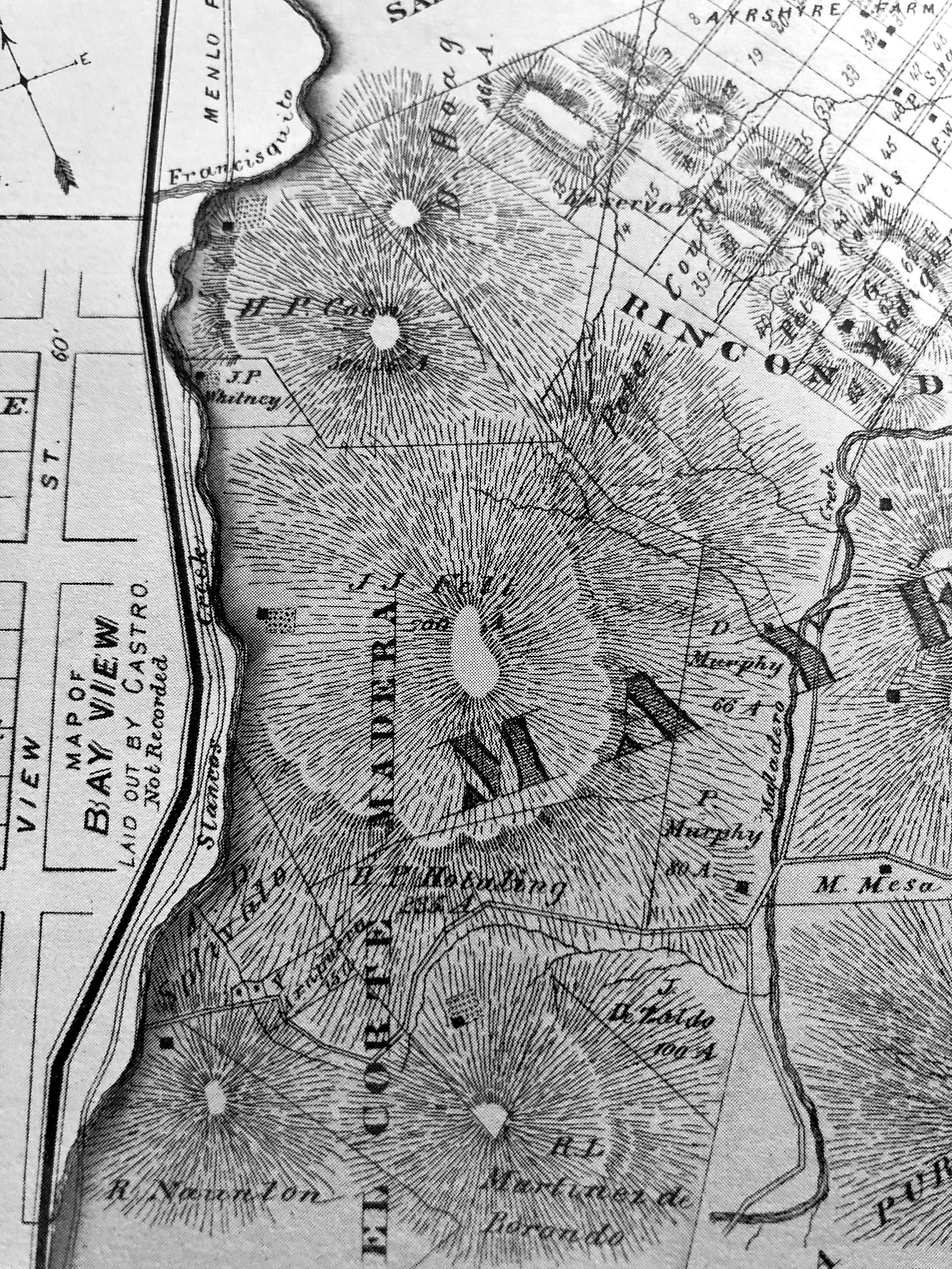 Shows Arastradero Road, Matadero Creek and its Arastradero Creek tributary (and in turn, its Mayfly Creek sub-tributary), and Los Trancos Creek (then Stancos Creek) with minor Felt Creek tributary joining just north of Arastradero Road, and Los Trancos Creek joining San Francisquito Creek near the top.